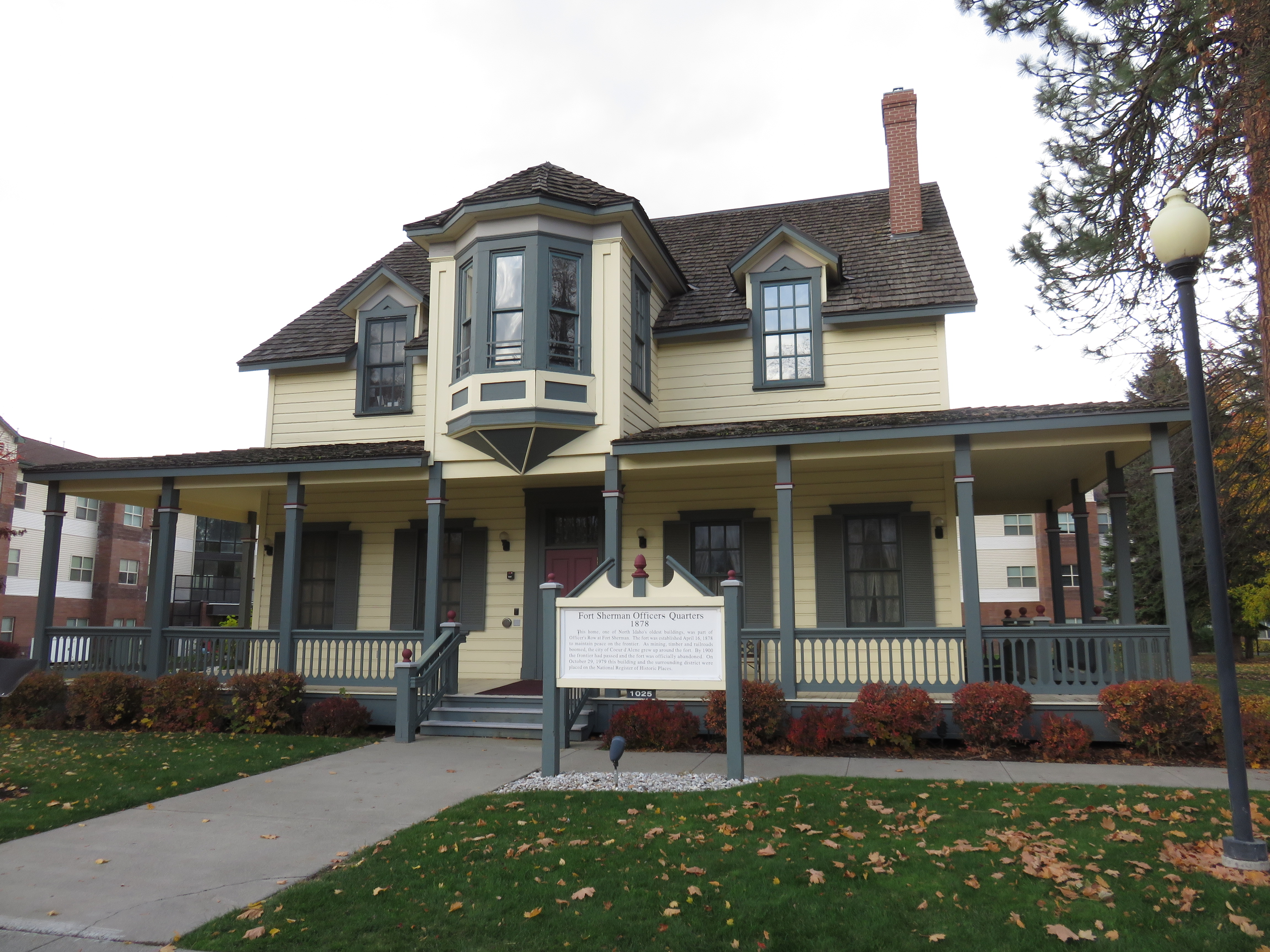 Officers Quarters of historical Fort Sherman on the campus of North Idaho College in Coeur d'Alene, Idaho in 2018